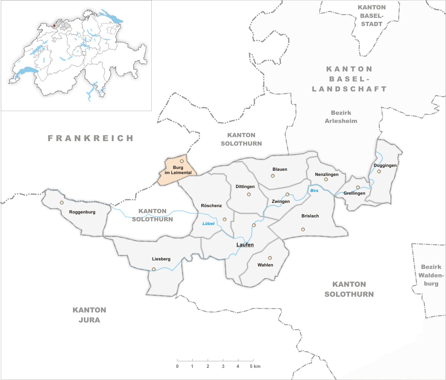 Municipality Burg im Leimental